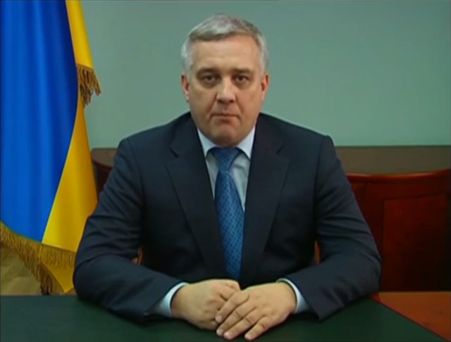 Oleksandr Hryhorovych Yakymenko, Ukrainian general, former Head of Security Service of Ukraine